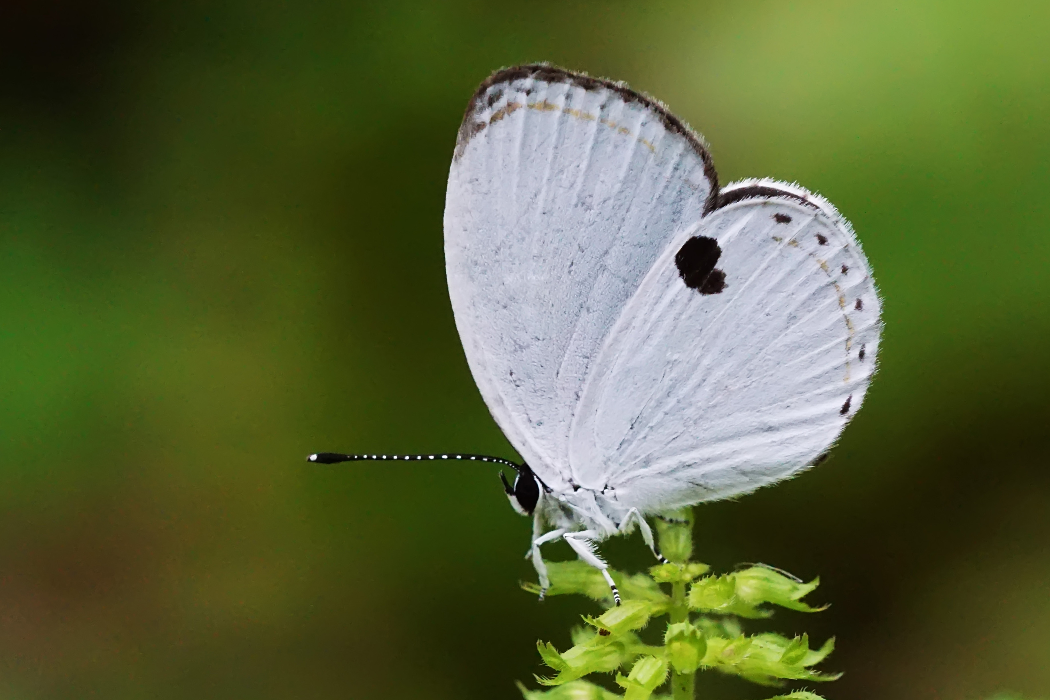 中文（台灣）: 藍丸灰蝶 Pithecops fulgens urai